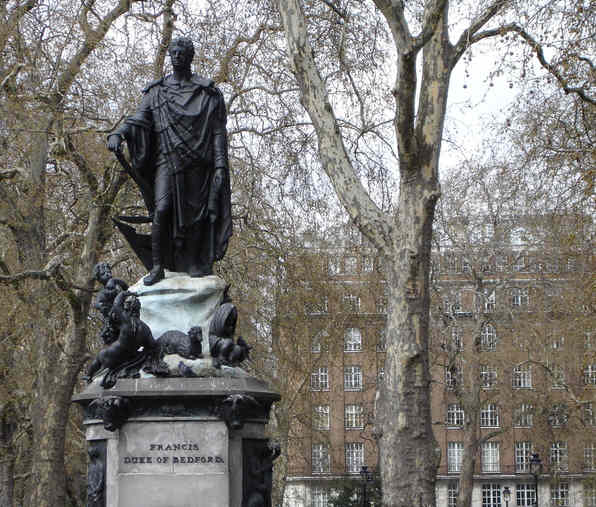 Francis Russell 5th Duke of Bedford, Statue Russell Square